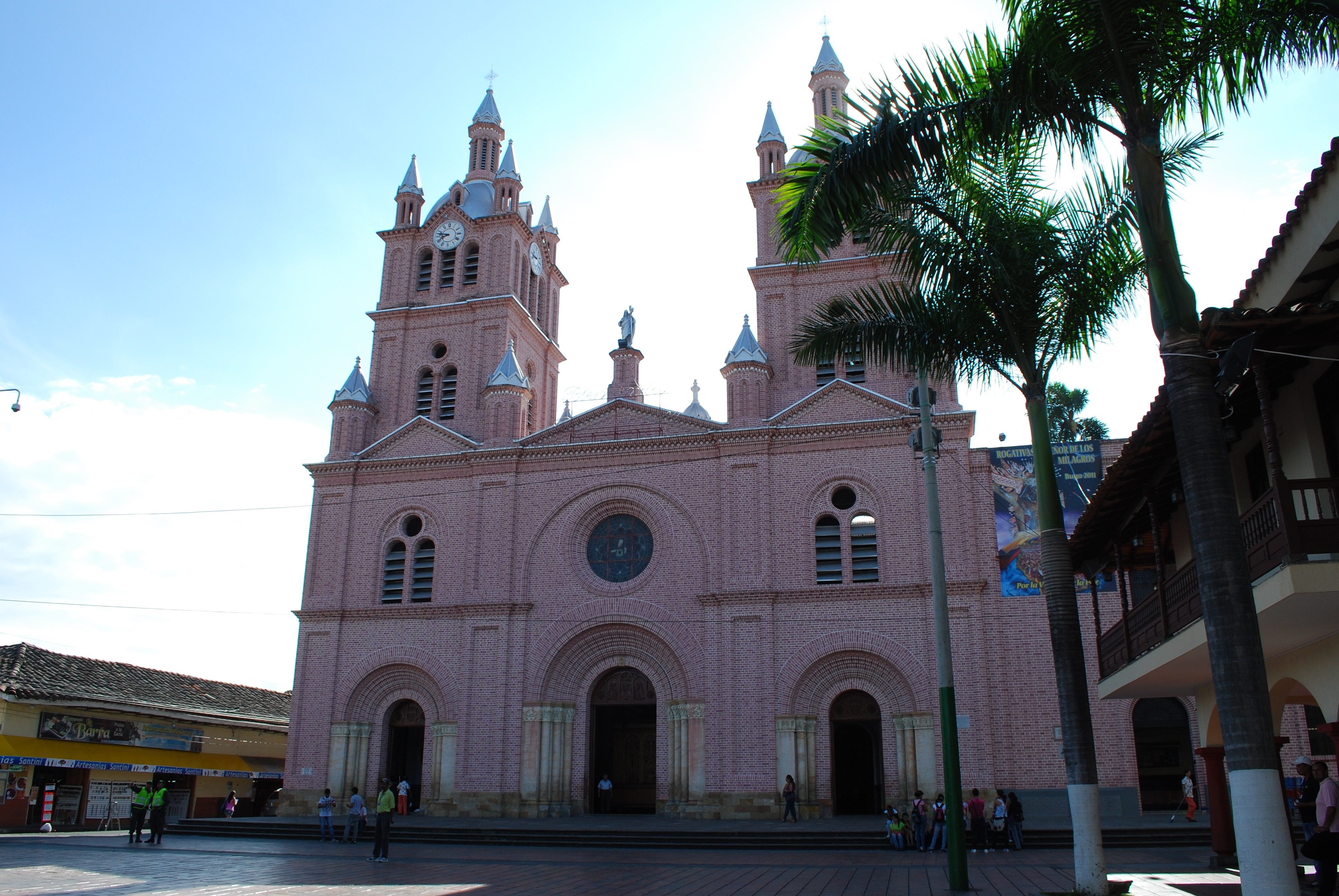 Basilica minor of the Lord of MIracles in Guadalajara de Buga